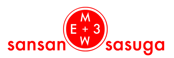 33sasuga logo